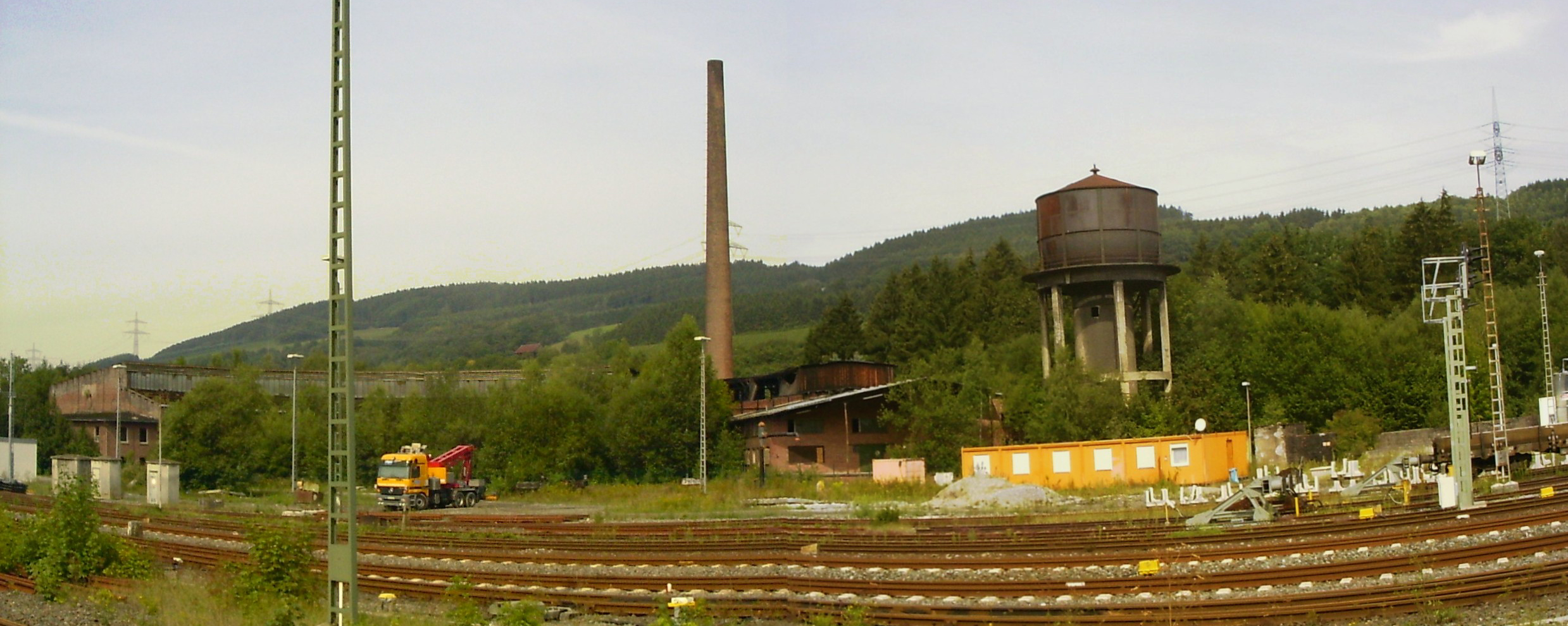 Train maintenance center Bestwig